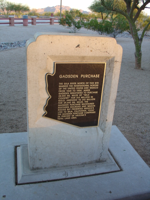 The Gadsden Purchase historical marker; located at a restop for Interstate 10, just north of Casa Grande, Arizona.